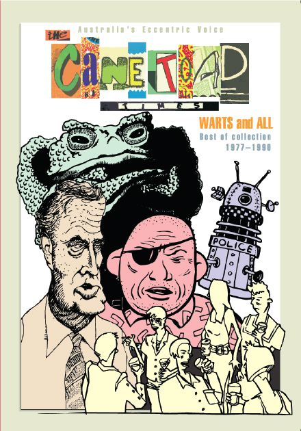 Cover by Matt Mawson, Cane Toad Times contributor Evidence of permission